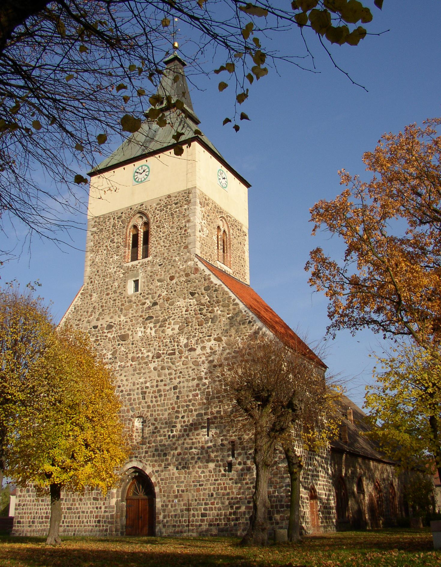 Church in Altlandsberg in Brandenburg, Germany